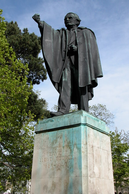 Statue of David Lloyd George, Cardiff Statue of David Lloyd-George near Cardiff City Hall. Lloyd George was a Liberal Prime Minister.